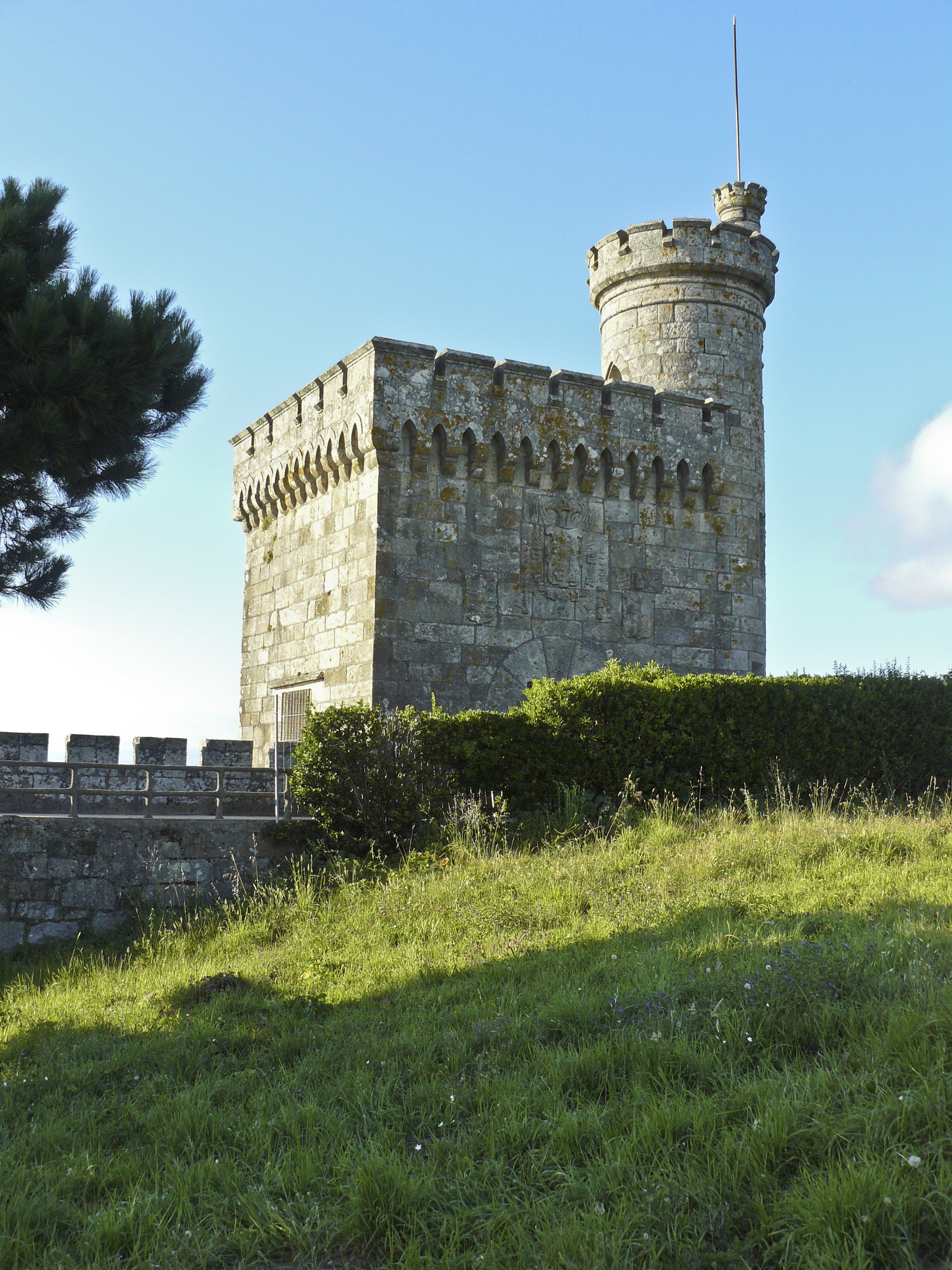 Tower of the Castle of Monterreal, Baiona, Galicia